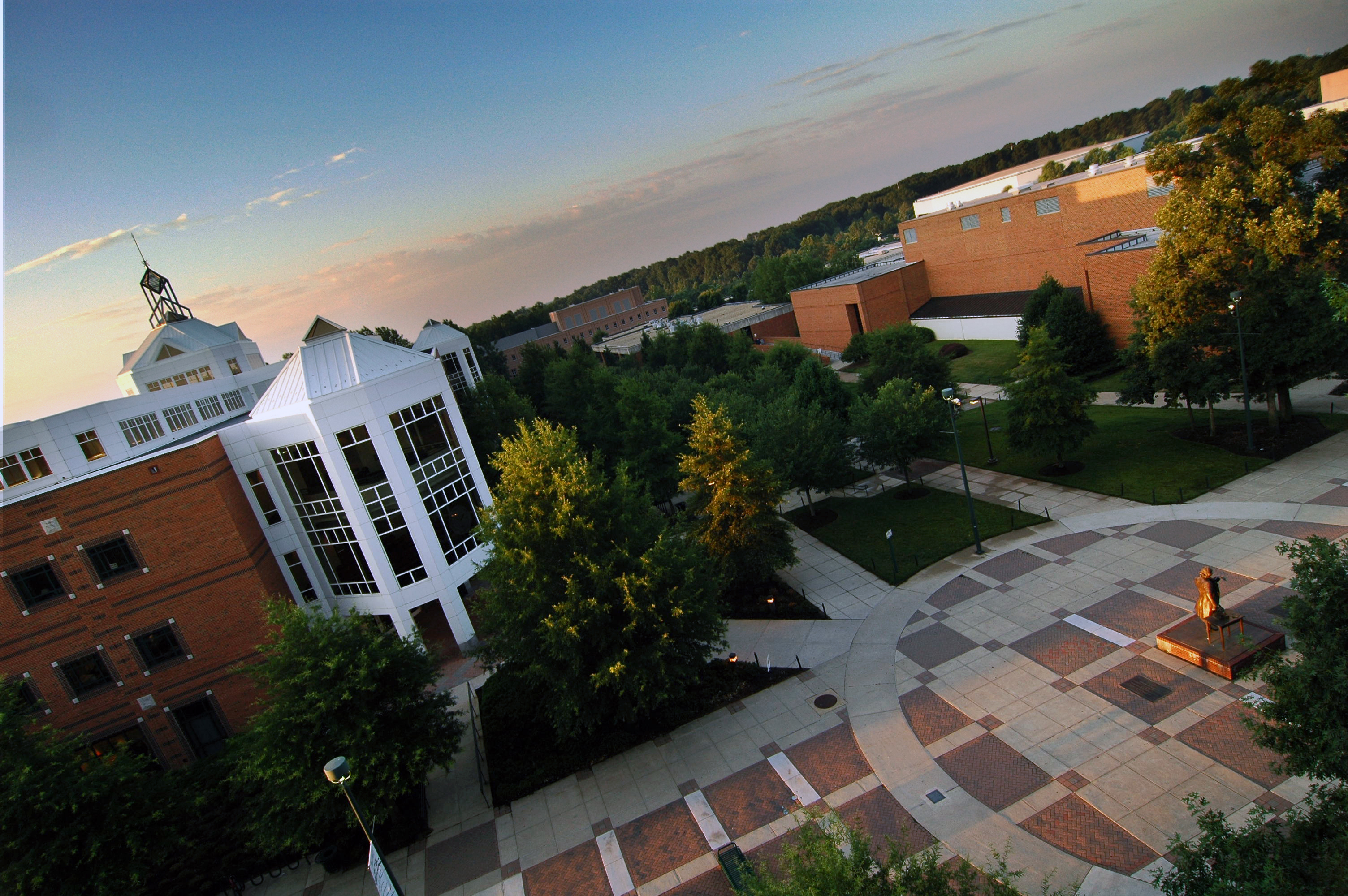 Fairfax Campus, Johnson Center Aerial View